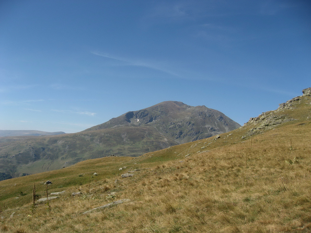 Borislavec peak on Šar Mountain (2.675 m)